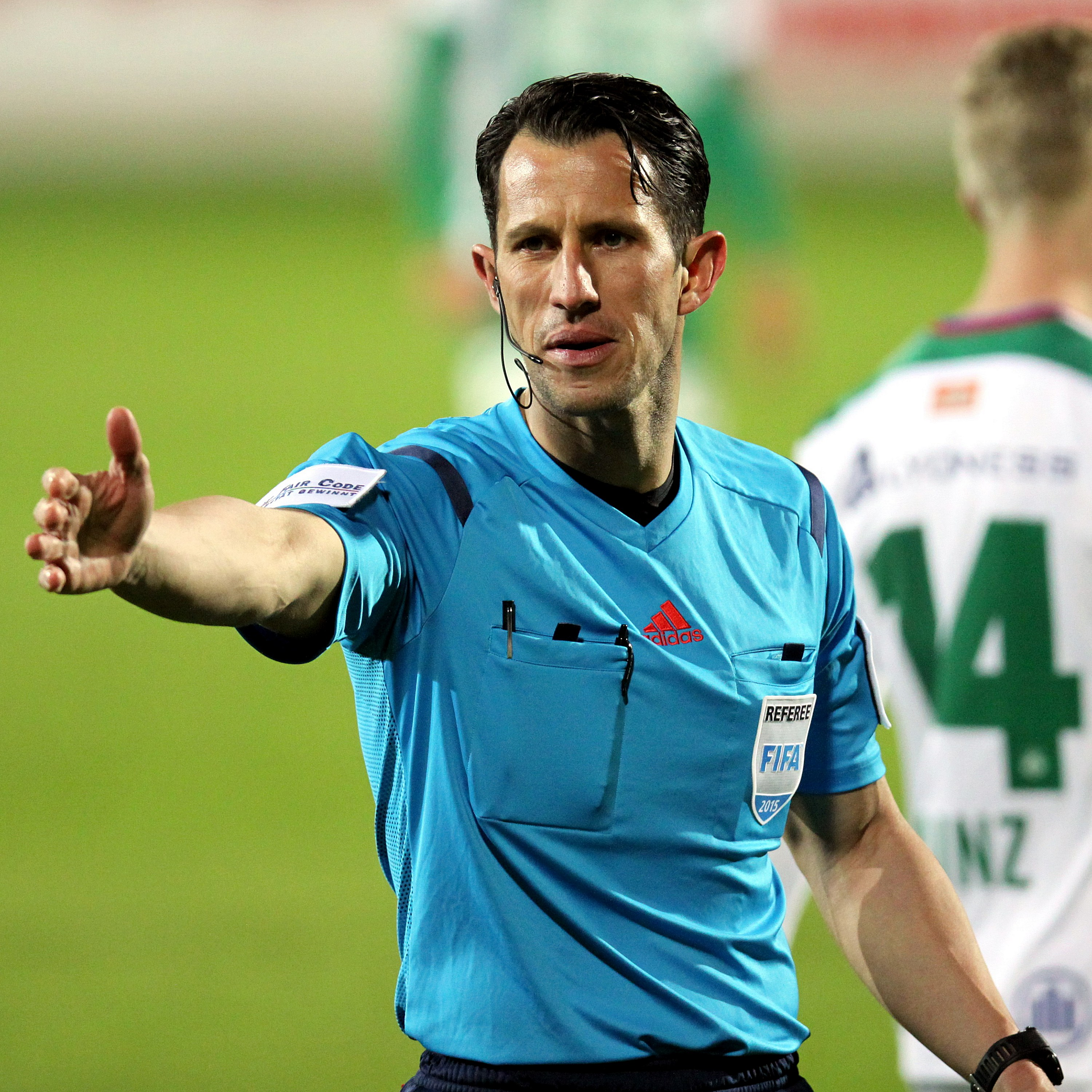 Match of the Austrian Football Bundesliga – SV Mattersburg (green shirts) vs. SK Rapid Wien (white shirts) 1-6 (0-5) at 2015-11-21 in Pappelstadion, Mattersburg – The photo shows referee Alexander Harkam.